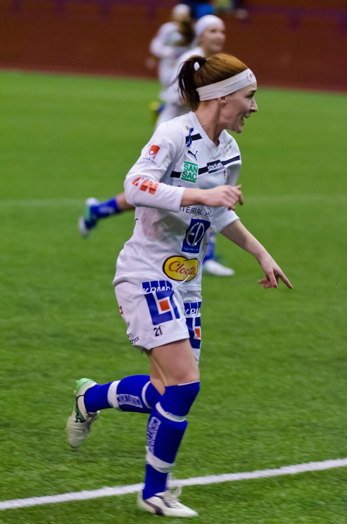 Maja Krantz playing a pre-season game for Linköping against Kopparbergs/Göteborg.